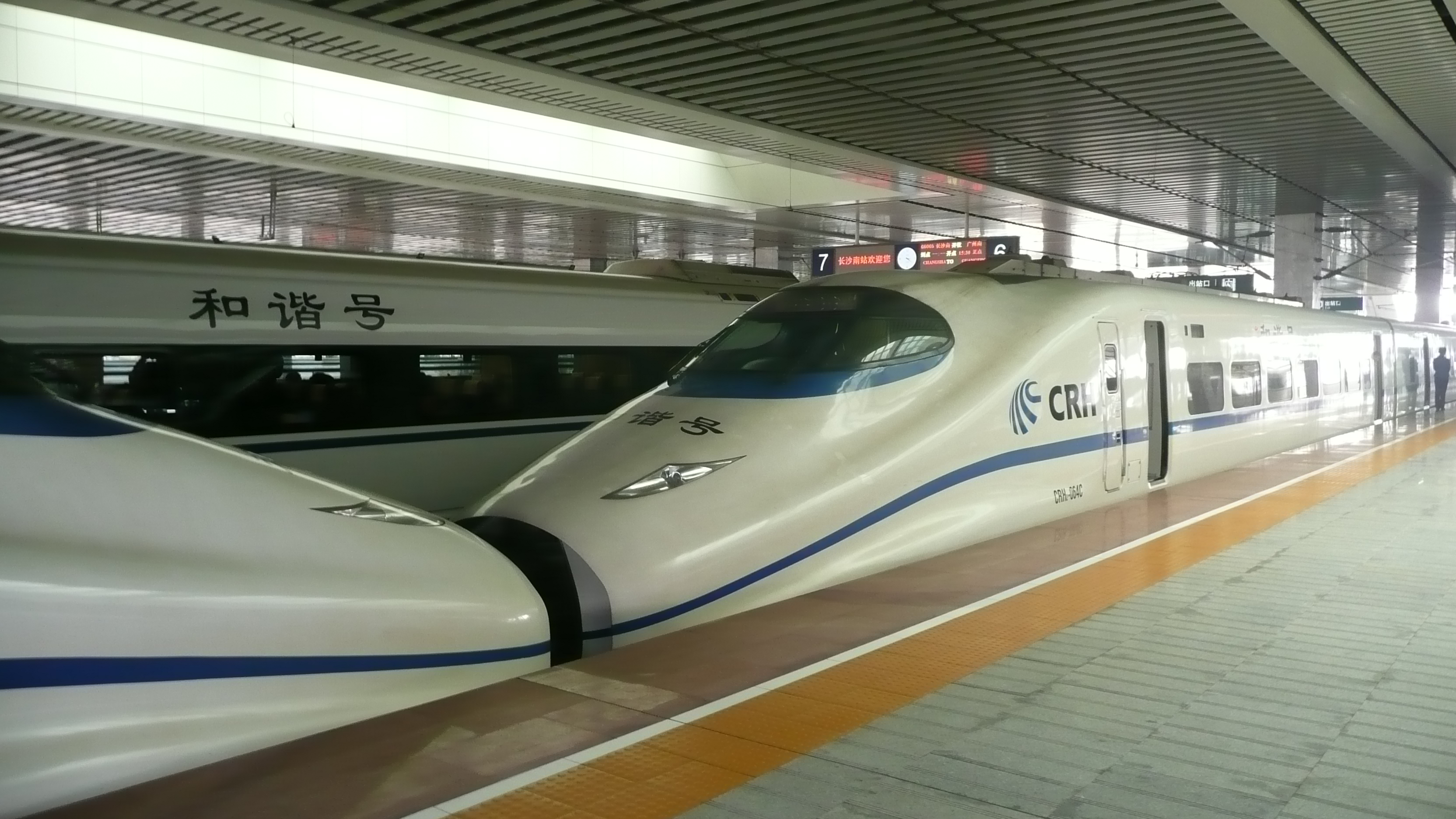 Changsha South Railway Station